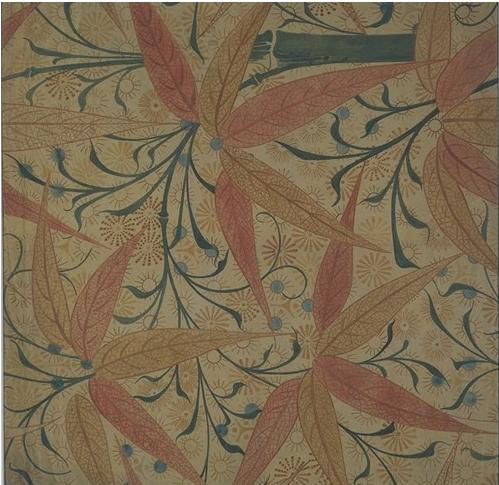 Design, 1872, Edward William Godwin V&A Museum no. E.515-1963 Techniques - Watercolour on tracing paper Dimensions - Height 53.9 cm Width 57.3 cm Object Type - This is the design drawing for a piece of wallpaper. Designs drawings vary greatly from rough sketches to highly finished design drawings, depending on their position in the design process. This design is very detailed and close in appearance to the printed wallpaper. Design & Designing - Godwin first designed wallpapers in 1872 but was already a successful architect by that time. His wallpapers were produced at a time when the wallpaper industry in England was booming. Godwin introduced a new style of pattern for wallpaper that was highly original combining both English and Japanese influences. These designs were very different from the other commercially produced designs available at the time. Colour played a very important part in Godwin's work, especially in his Japanese influenced designs. The combination of colours in this design is typical of those seen in Japanese prints. People - This wallpaper is similar to the designs of William Morris in its use of floral patterns. Godwin used Morris's wallpapers to decorate his own home. In 1866 Metford Warner joined the Wallpaper manufacturing company Jeffrey & Co. He was inspired by William Morris's work and began to commission artists and architects to design wallpapers. This paper was called 'Bamboo' and was one of the papers commissioned from Godwin.